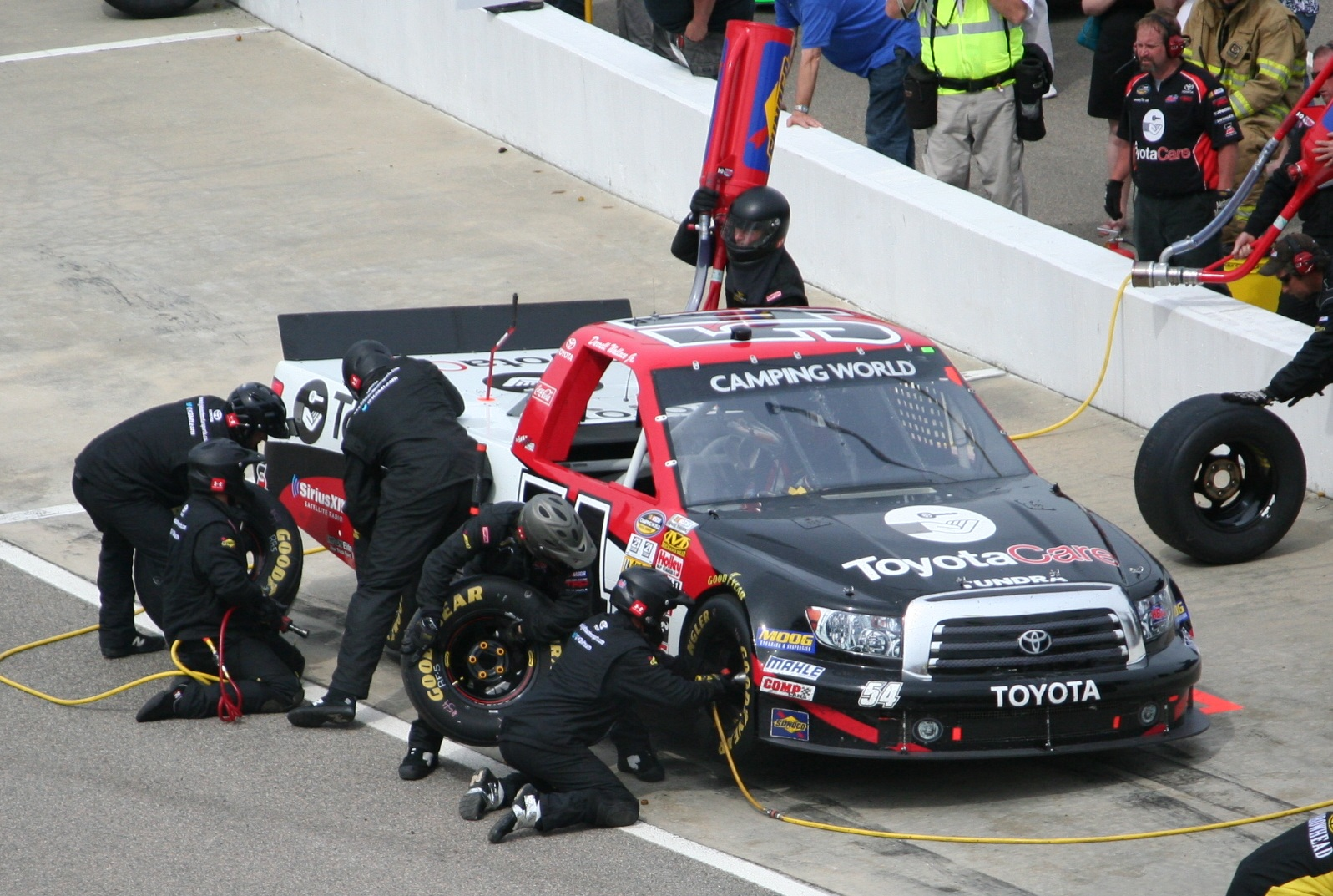 Darrell Wallace Jr. makes a pit stop during the NASCAR Camping World Truck Series North Carolina Education Lottery 200 at Rockingham Speedway in 2013.